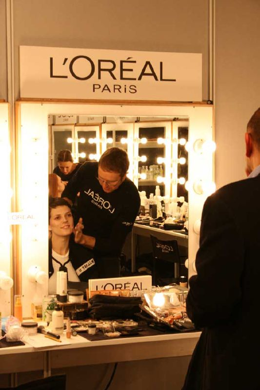 Make-up artists backstage at the Pasarela Cibeles fashion show, Madrid Fashion Week